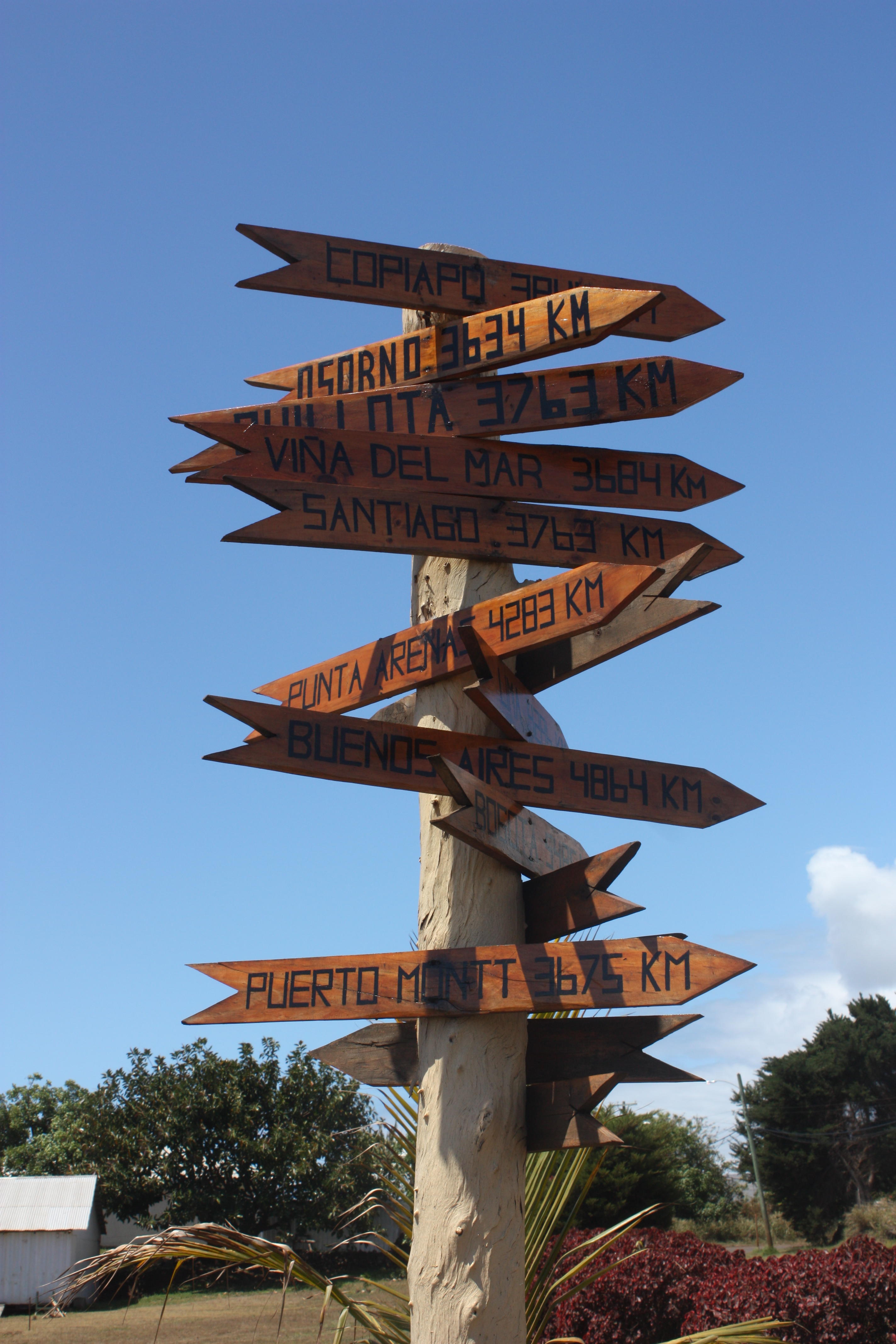 Easter Island, middle of nowhere